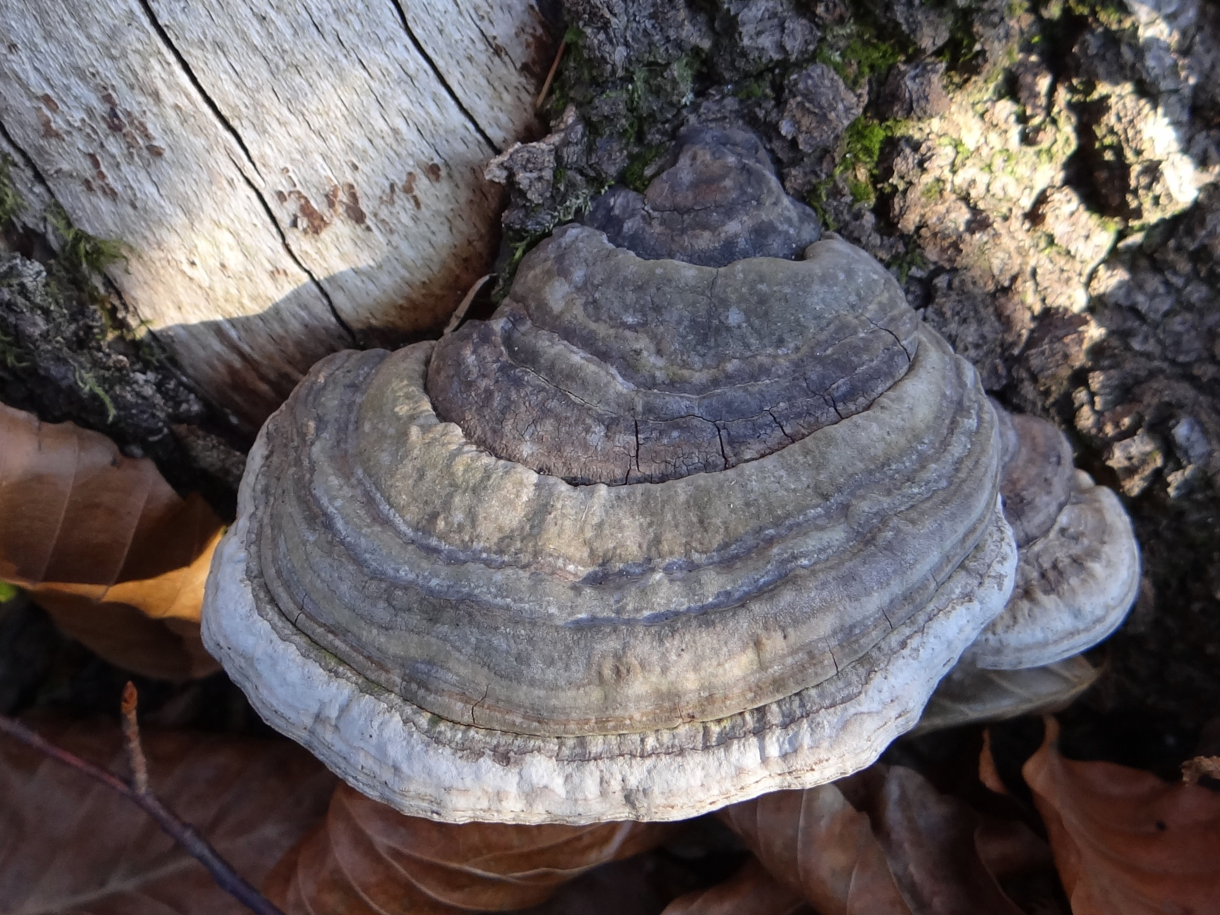 Fomes fomentarius (location: Poland, Beskid Wyspowy, Mogielica)